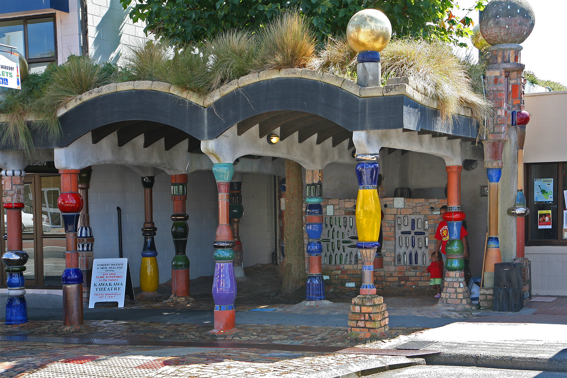 The town of Kawakawa (about 1300 inhabitants) is located on the North Island of New Zealand in the "Far North District". The public toilet was designed by the architect and artist "Friedensreich Hundertwasser".